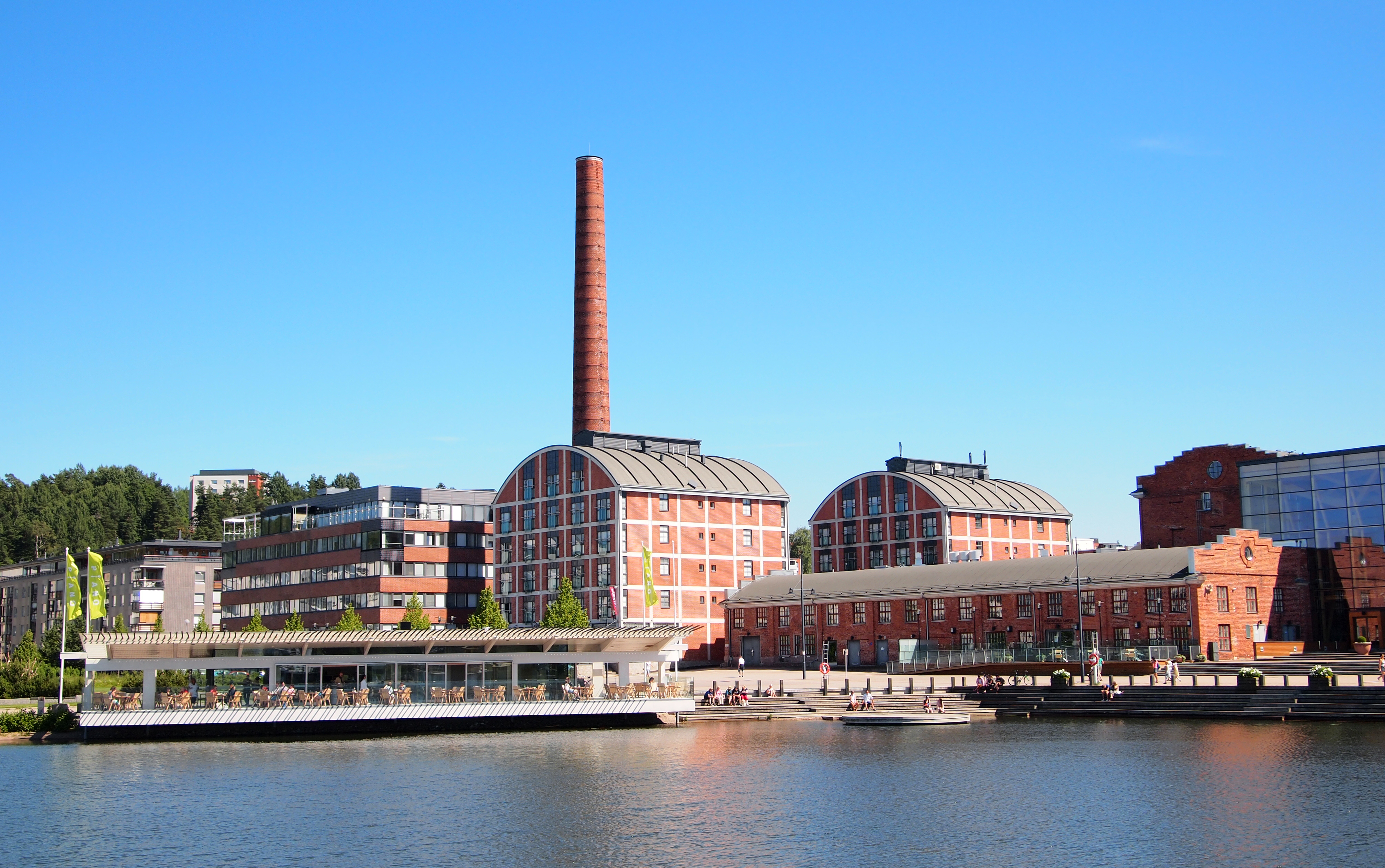 View from a dock in Lahti harbour. This photograph was taken with an Olympus E-PL1